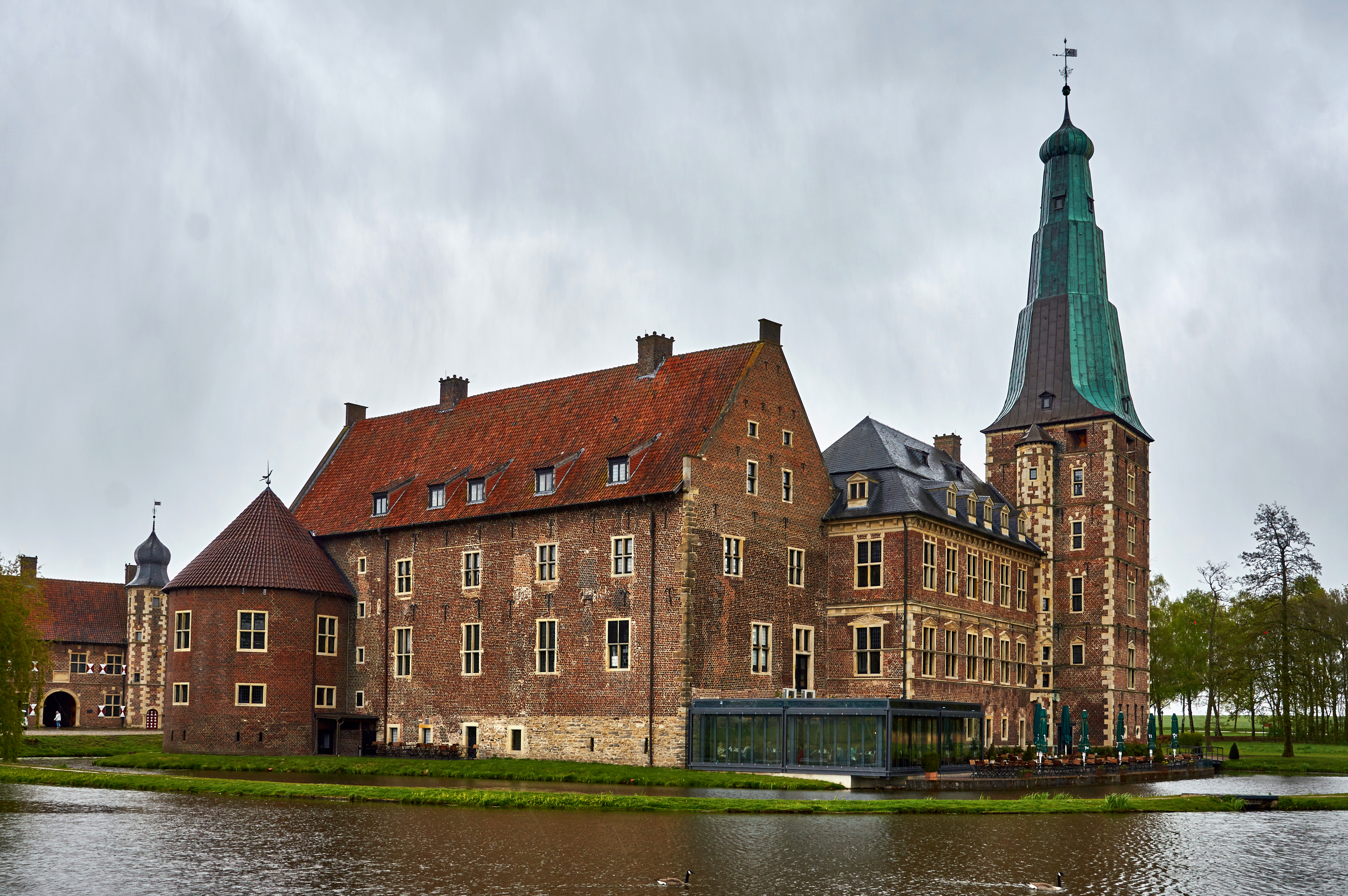 Raesfeld Castle, Raesfeld, district of Borken, North Rhine-Westphalia, Germany. This is a photograph of an architectural monument.